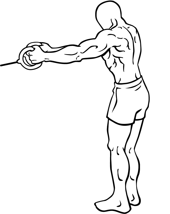 an exercise of shoulders